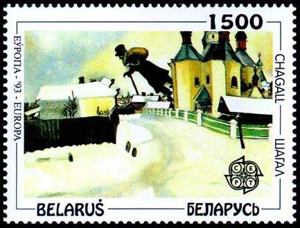 Stamp of Belarus